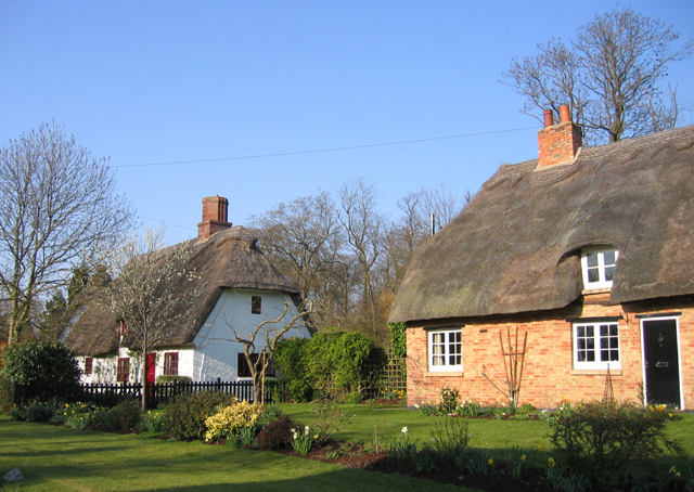 Thatched cottages, High Street, Croxton, Cambs, near to Croxton, Cambridgeshire, Great Britain. The High Street south of the A428 gives access to the parish church in Croxton Park.